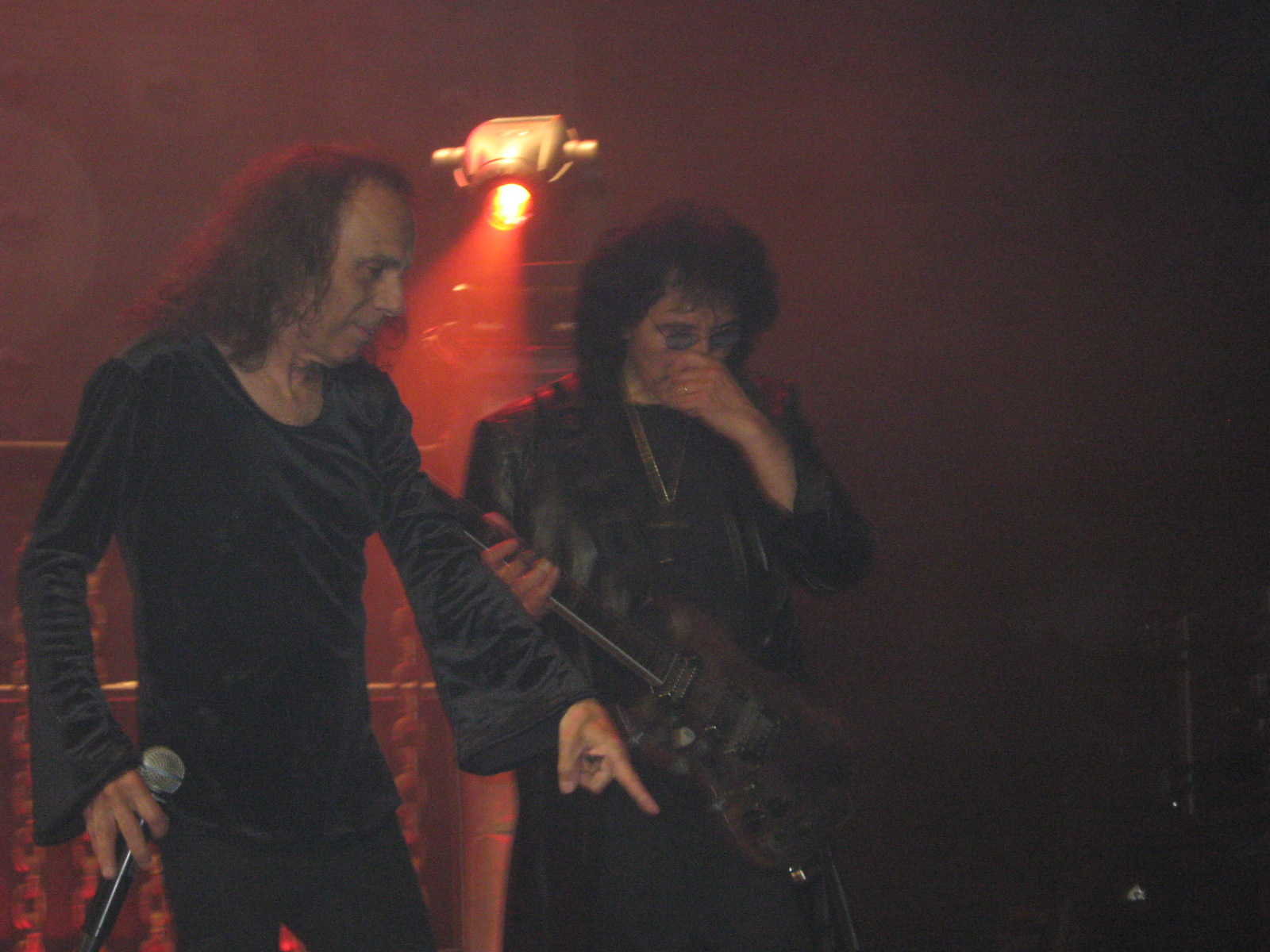 A picture of Ronnie James Dio and Tony Iommi during a Concert at the "Movistar Arena" in Santiago de Chile, Chile 2009